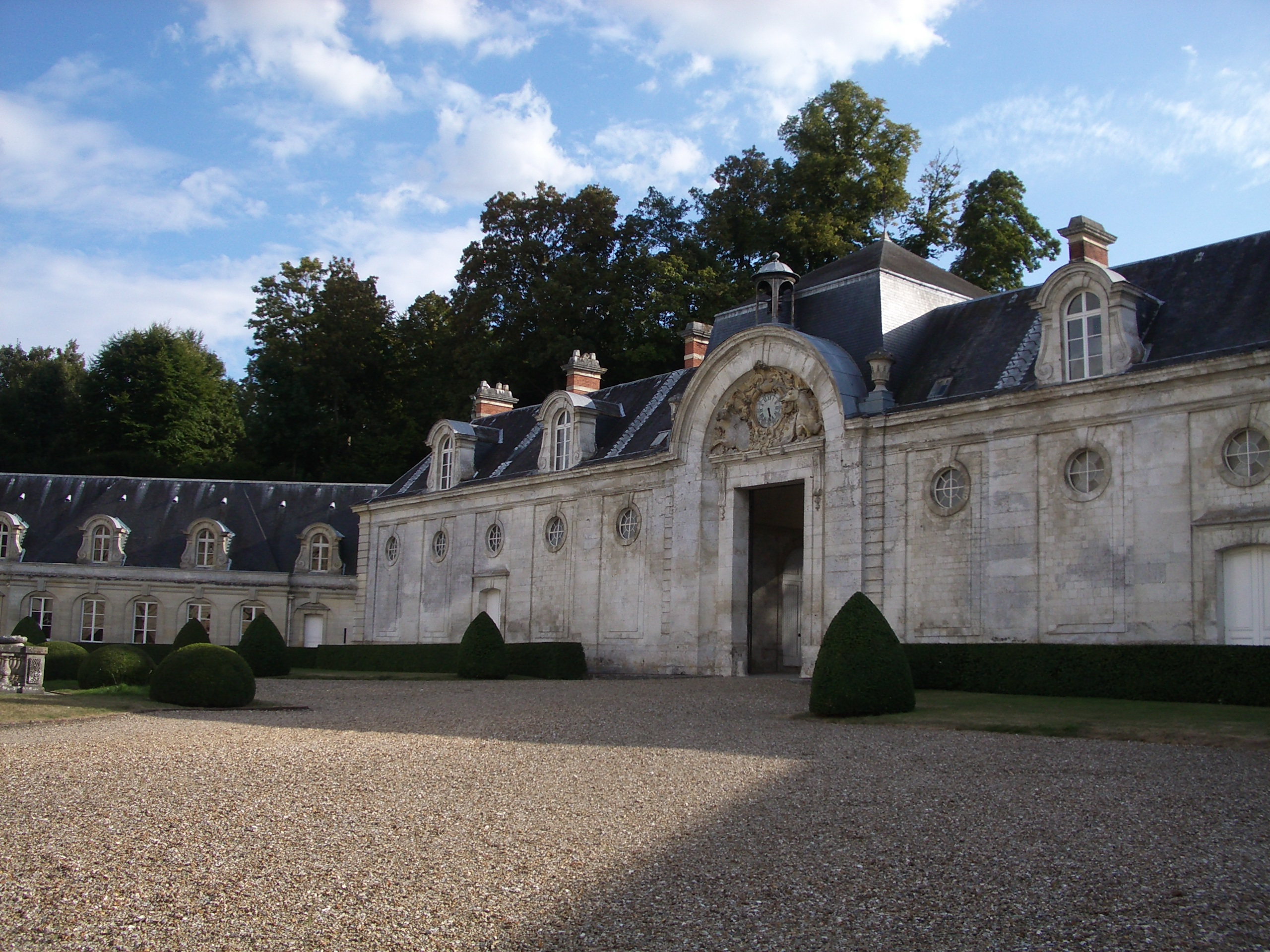 Castle of Bizy - Vernon (Eure)